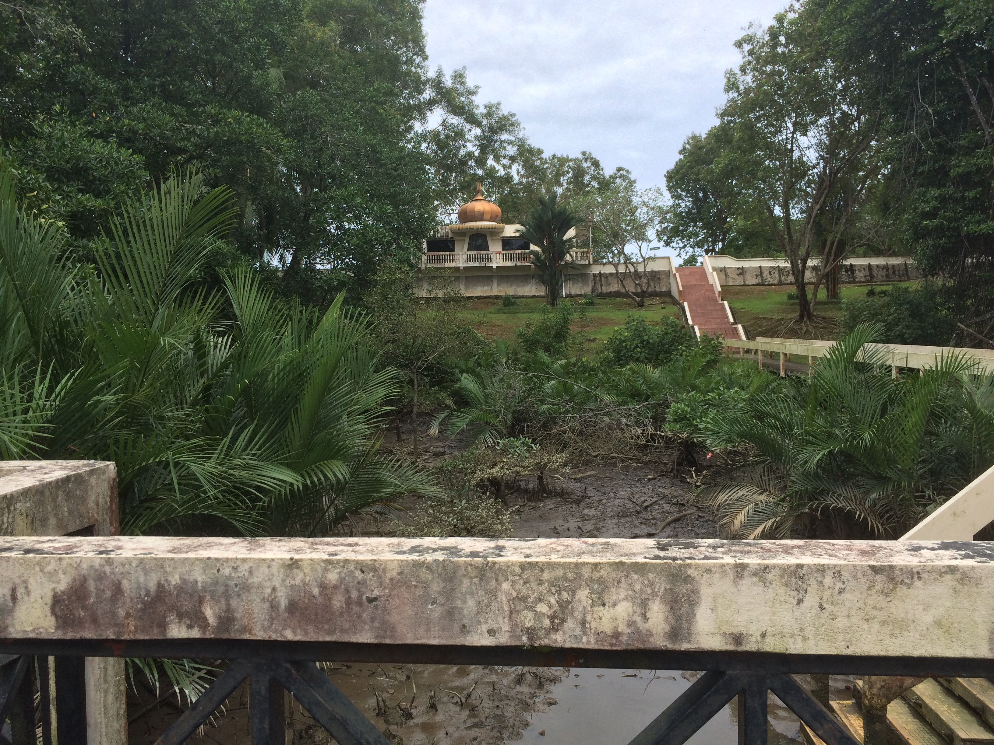 The vicinity of Makam Di Luba, Brunei. The resting place of Sultan Hussin Kamaluddin, the 16th ruler of Brunei.